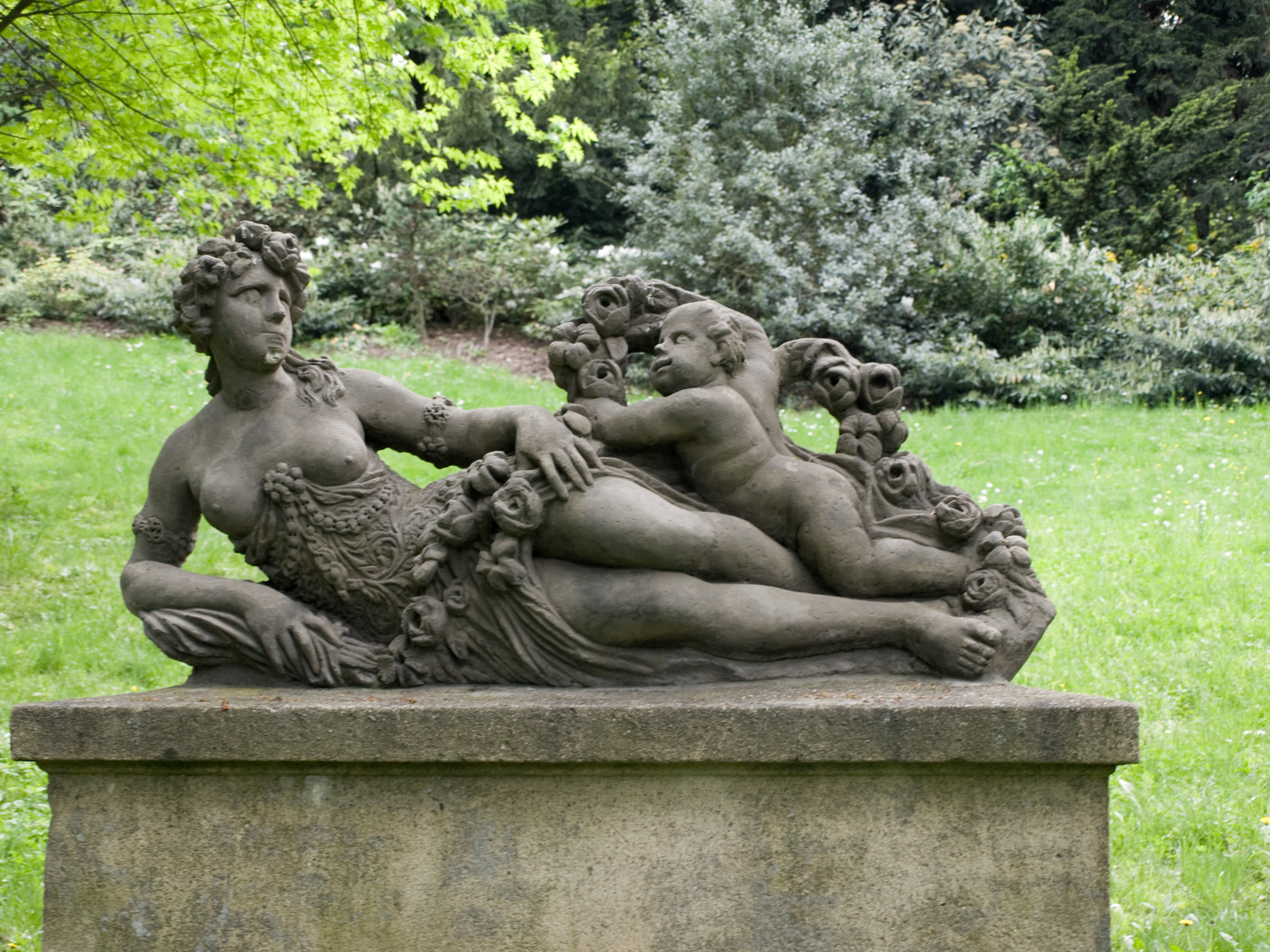 Statue in Santoška Park, Smíchov, Prague, Czech Republic